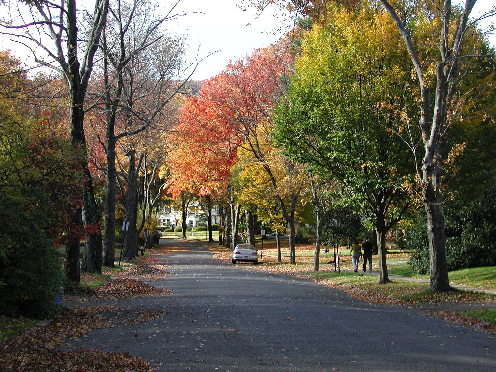 Fall foliage in Maplewood, New Jersey. The street is North Crescent.